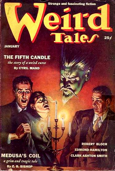 Cover of the pulp magazine Weird Tales (January 1939, vol. 33, no. 1) featuring The Fifth Candle by Cyril Mand. Cover art by Virgil Finlay.